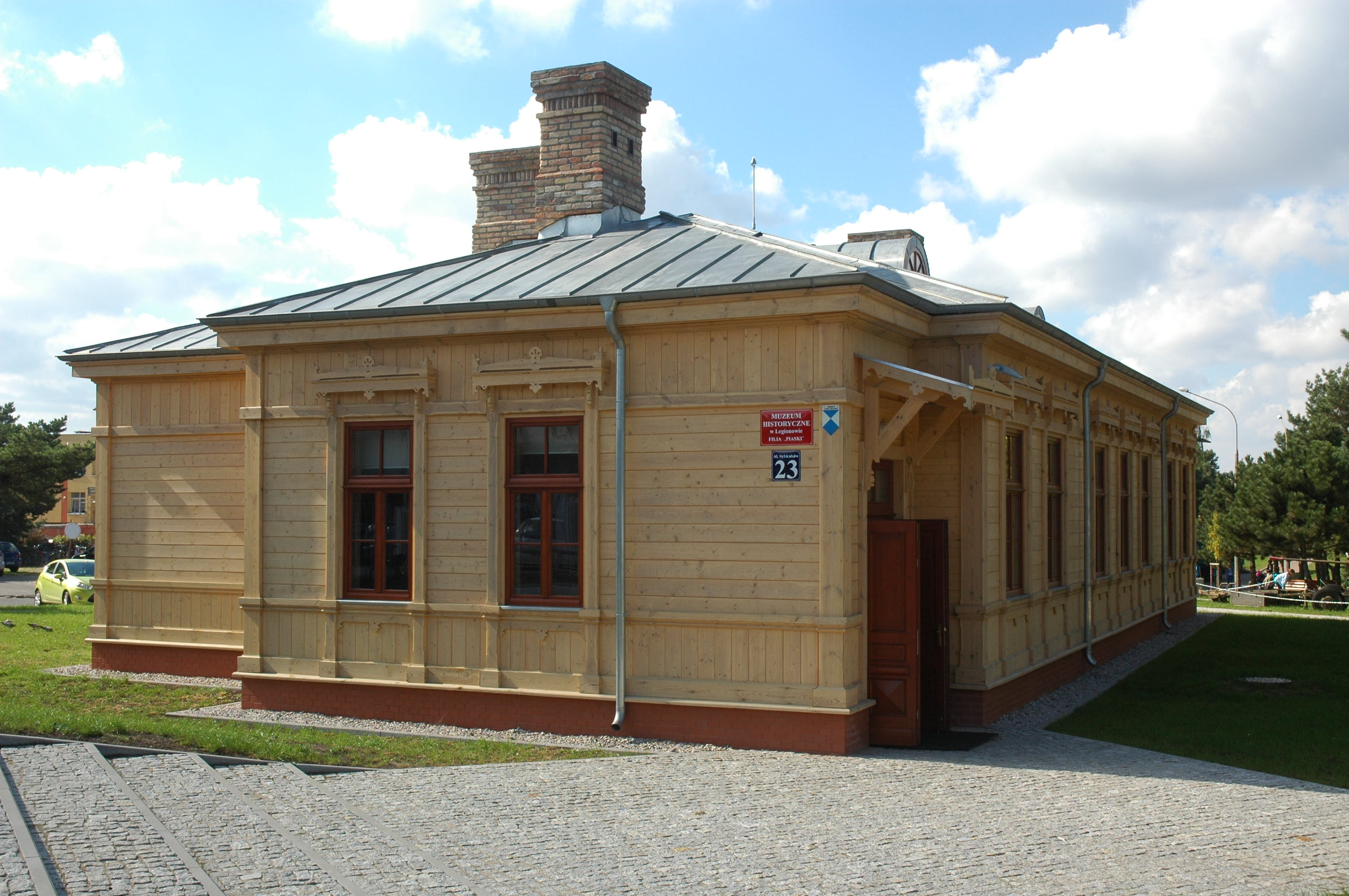 Historical Museum Legionowo